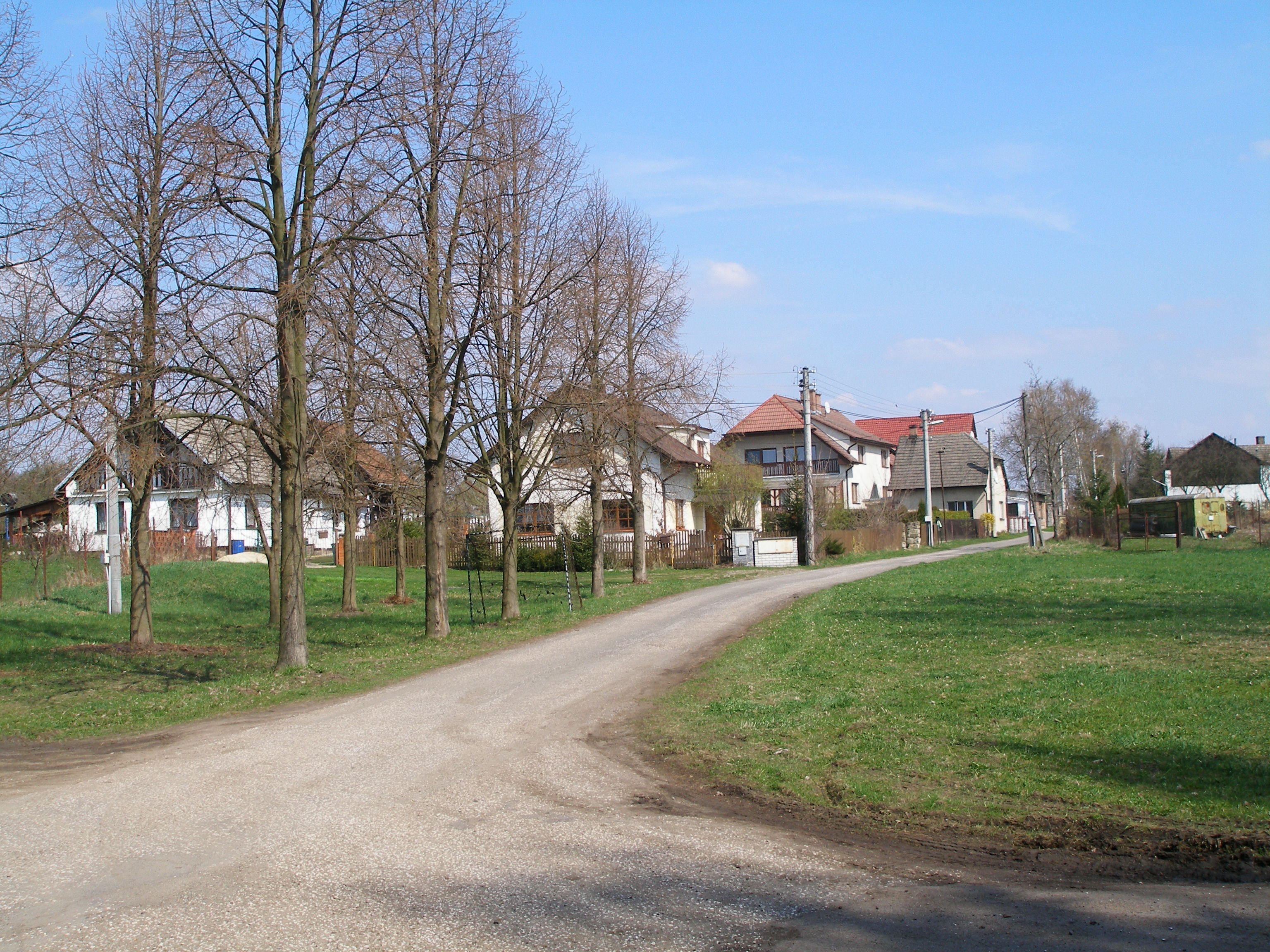 Village square in Honsob.